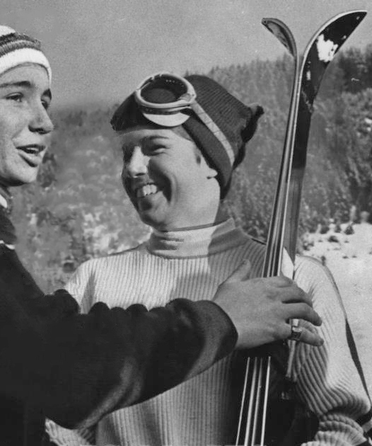 1964 Press Photo French skier Marielle Goitschel & Jean Saubert of US